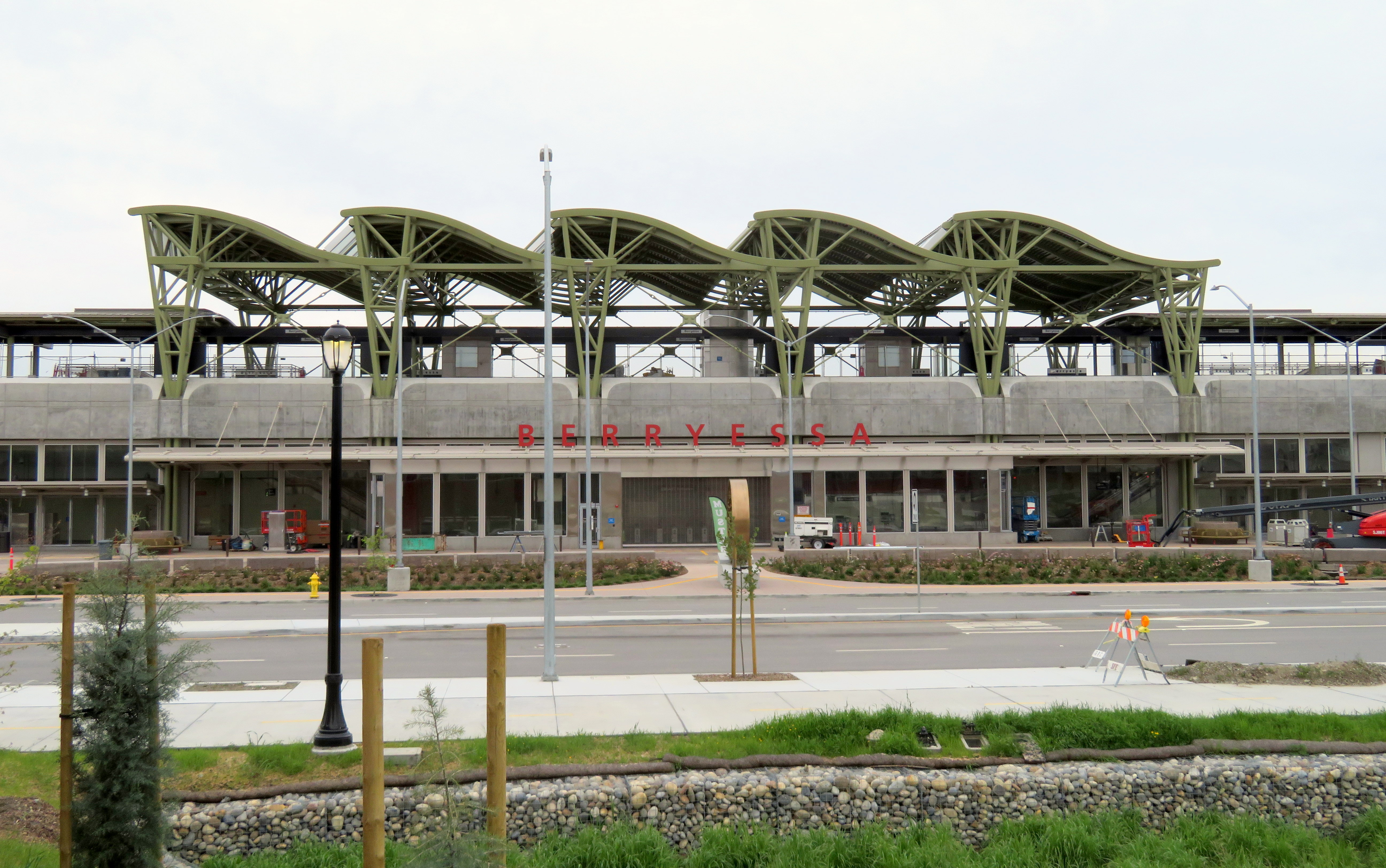 Berryessa station under construction station in March 2018